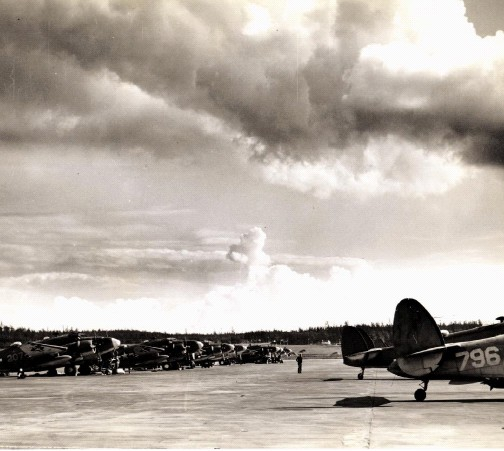 Lockheed PV-1 Venturas of patrol squadron VPB-131 at Naval Air Station Whidbey Island, Washington (USA), 1944/45.